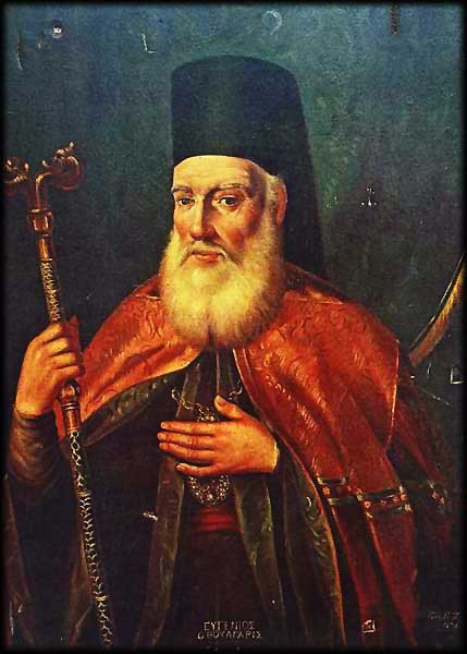 Eugenios Voulgaris (Boulgaris) (1716-1806), a Greek Orthodox scholar who served as an archbishop in Russian Empire